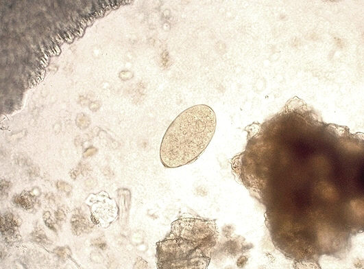 ID#: 1540 Description: Egg of Fasciola hepatica. Content Providers(s): CDC/Dr. Mae Melvin Creation Date: 1979 Copyright Restrictions: None - This image is in the public domain and thus free of any copyright restrictions. As a matter of courtesy we request that the content provider be credited and notified in any public or private usage of this image.